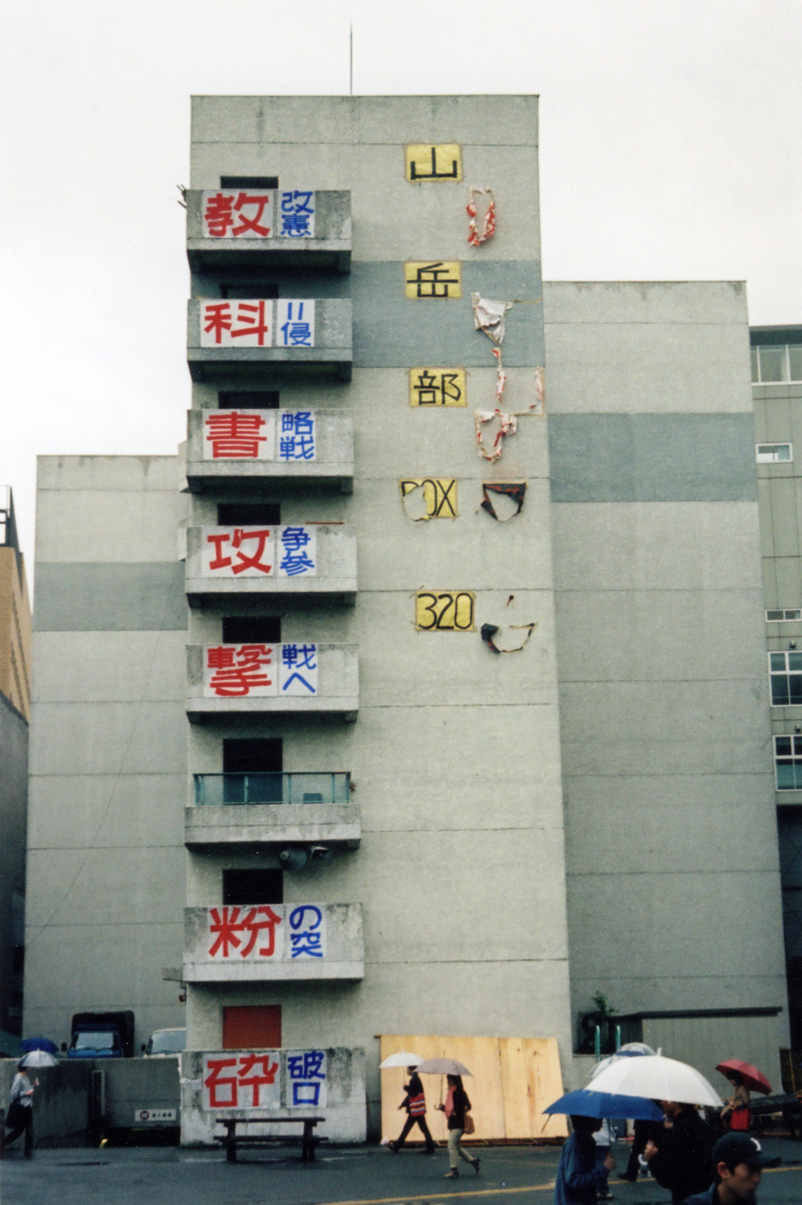 Hosei Universitiy Student Buildings, 2-17-1 Fujimi Chiyoda-ku Tokyo Japan.